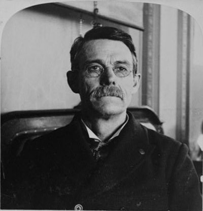 Hon. Jerry Simpson, member of Congress from Kansas